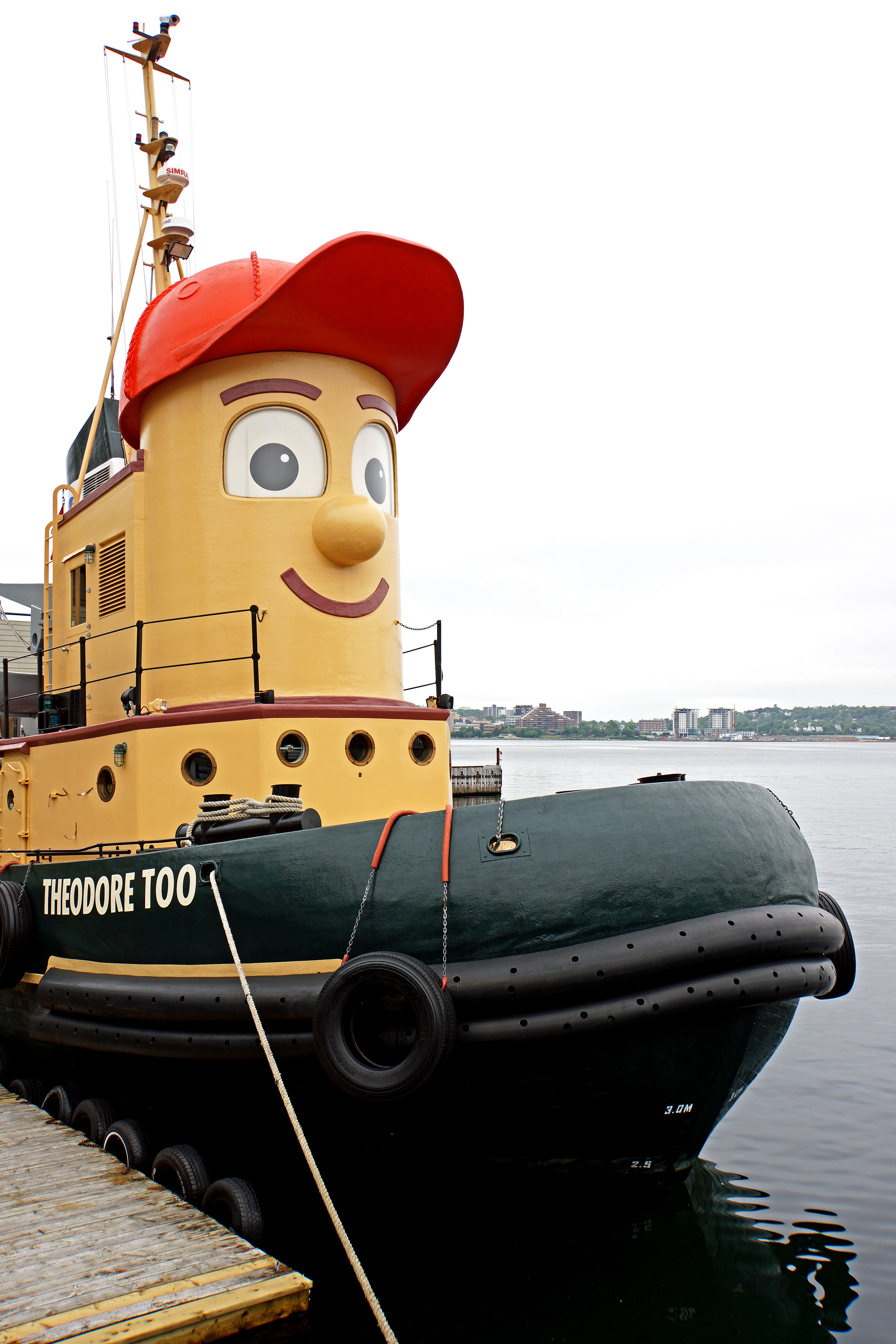 PLEASE, no multi invitations, glitters or self promotion in your comments, THEY WILL BE DELETED. My photos are FREE for anyone to use, just give me credit and it would be nice if you let me know, thanks - NONE OF MY PICTURES ARE HDR. Theodore Tugboat at Murphy's Cable Wharf, Halifax. Theodore Too is a large-scale imitation tugboat based on the fictional tugboat Theodore from the television show Theodore Tugboat.